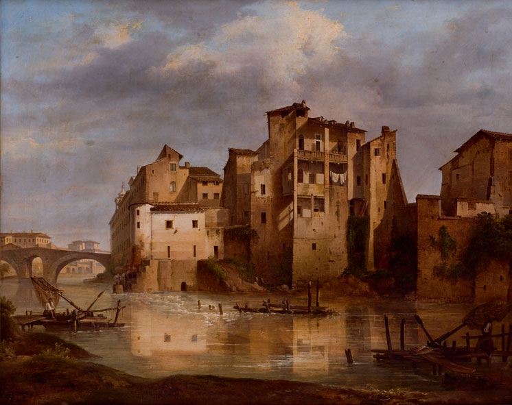 View Of Tiber Island